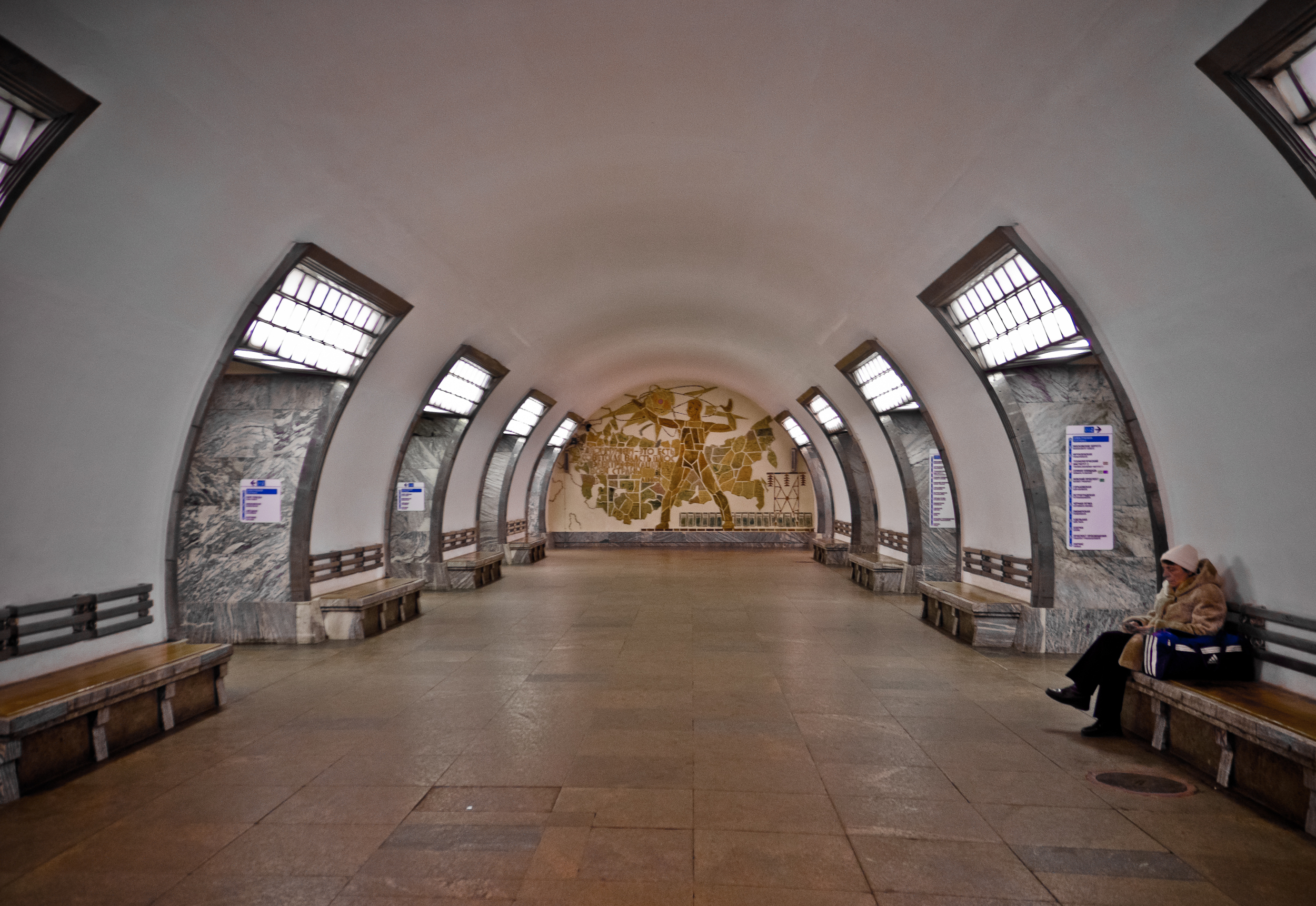 Elektrosila station of Saint Petersburg Subway